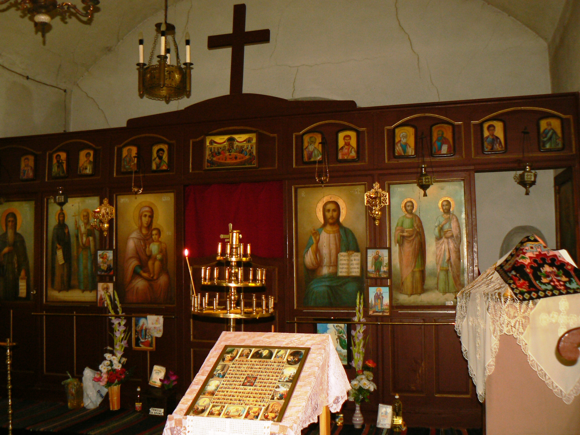 The church of Krichim Monastery, Bulgaria.